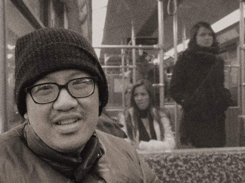 Jason Shiga (comic artist from Oakland, California) in the Berlin U-bahn.